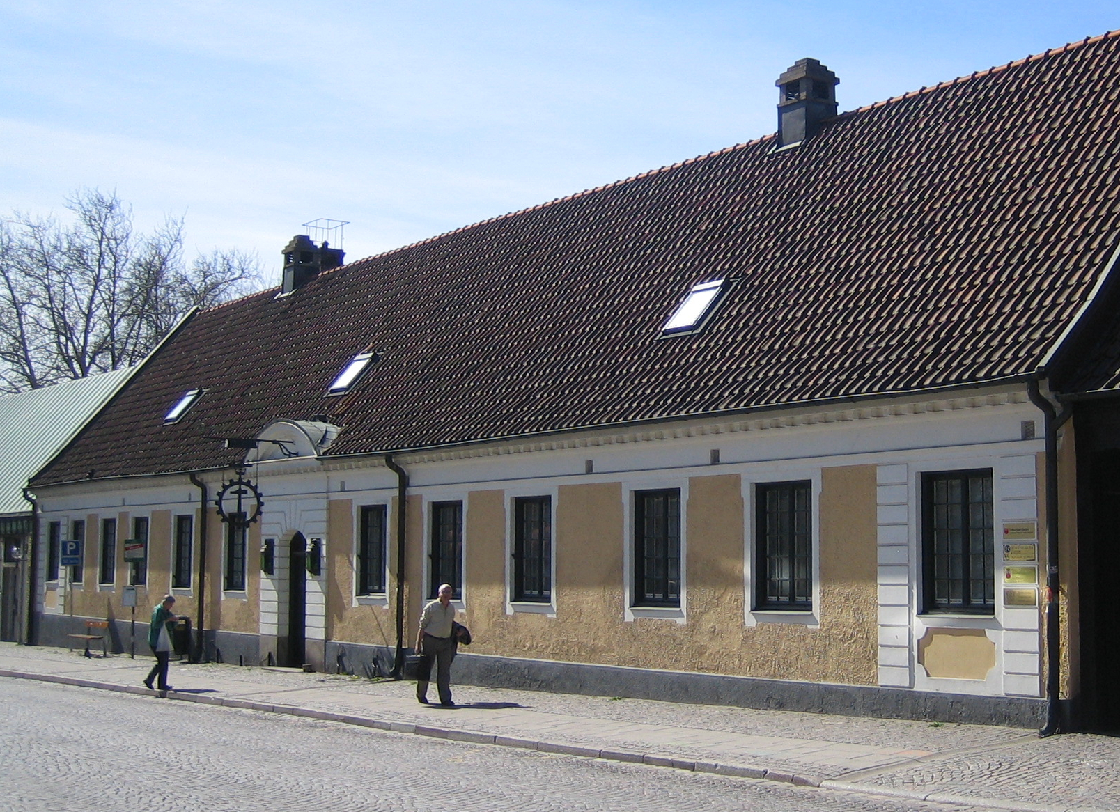 Åke Hans, formerly famous restaurant in Lund